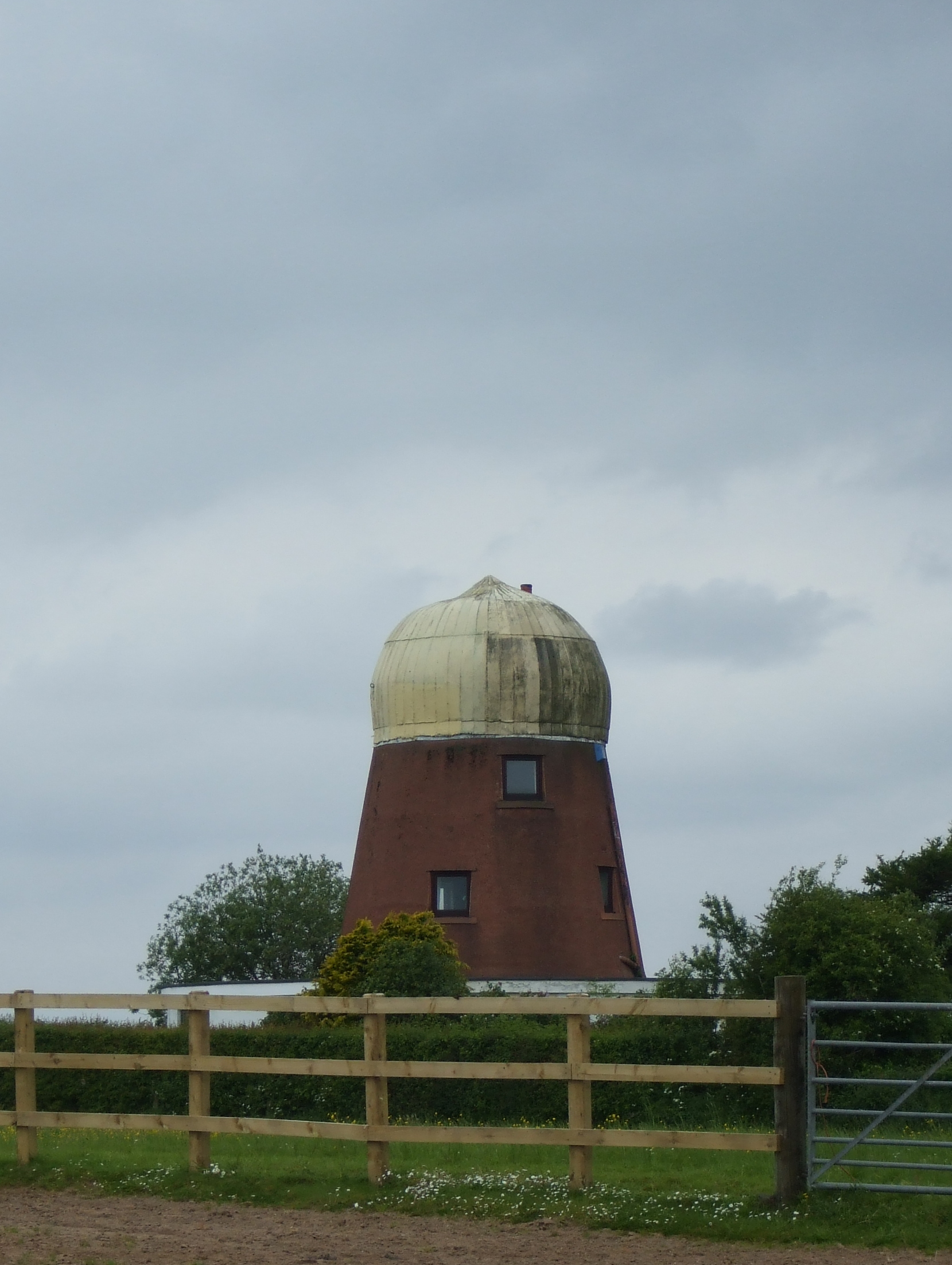 Langrigg Mill, Cumbria